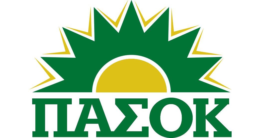 pasok logo